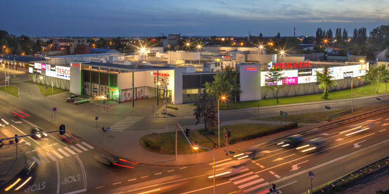 Shopping Center "Dekada" in Sieradz